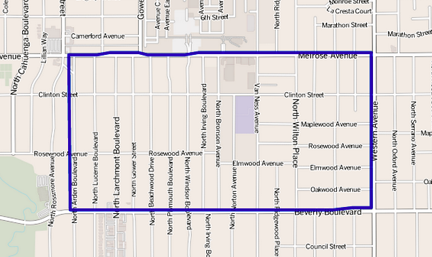 Map of Larchmont, California as delineated by the Los Angeles Times Other information Boundary map as drawn by the Los Angeles Times on a CC-by-SA background. Note at bottom right of map on the L.A. Times website noted above says "CC-by-SA" (which gives permission to use the map). There is a link there to which explains the meaning thereof. The base map is credited to The Times spells all this out at